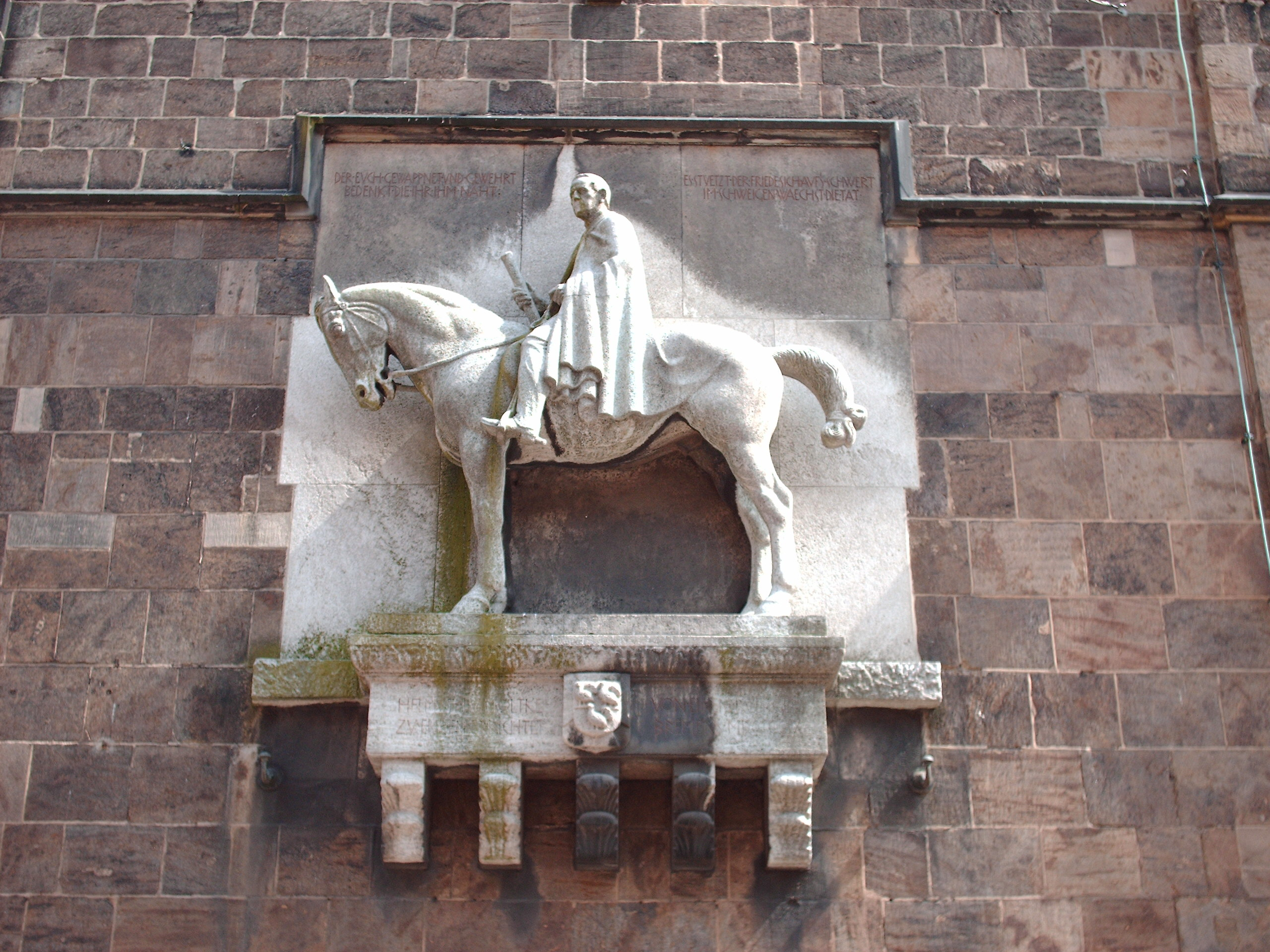 DE: Unser Lieben Frauen Kirche - EN: Church of our Lady - Built on the site of Bremen’s oldest parish church from the 11th century - Rebuilt as a Westphalian-style Gothic hall church in the 13th century